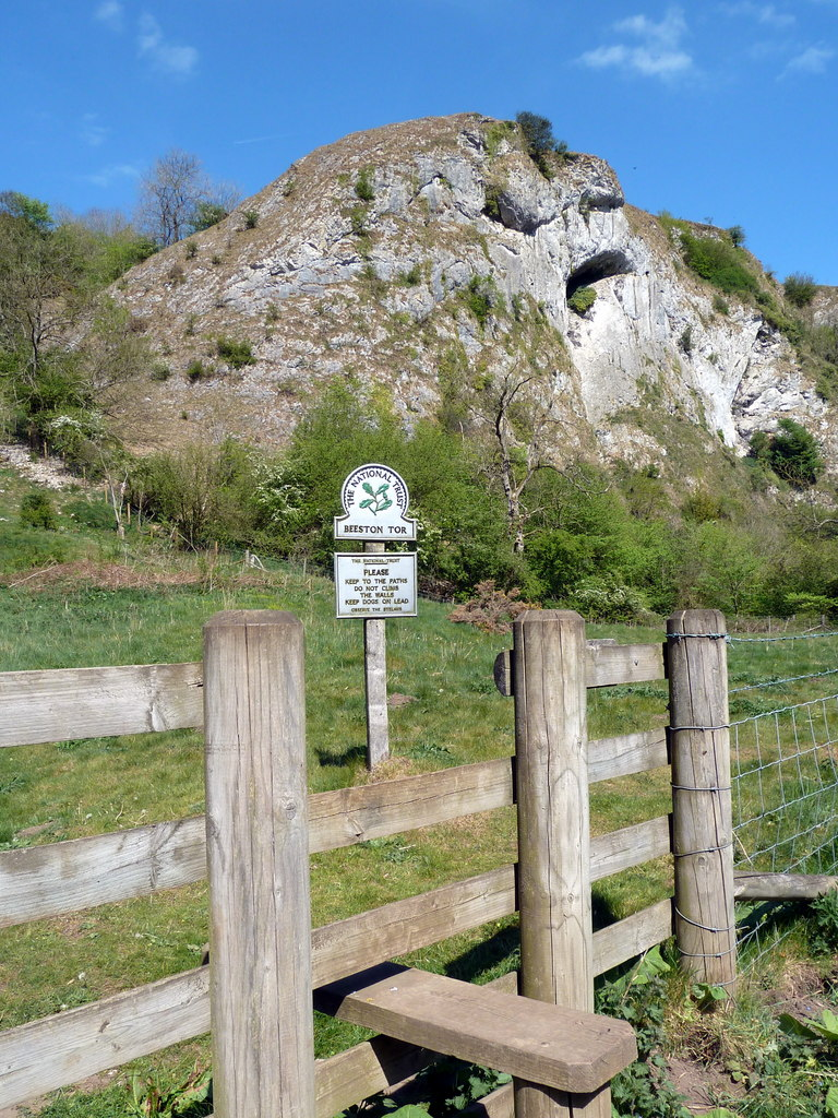 Beeston Tor, Data from Geograph: Description: One of the largest and most spectacular limestone crags of the area overlooks the confluence of the River Hamps with the River Manifold ICBM: 53.083747146134, -1.8435002665808 Location: (about 1 km from) near to Wetton, Staffordshire, Great Britain.